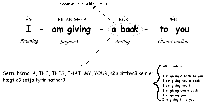 Explanation about sentence structure in English, which mainly has usage on the Icelandic Wikibooks for the Lærðu Ensku 1: Grunnensku fyrir byrjendur book.